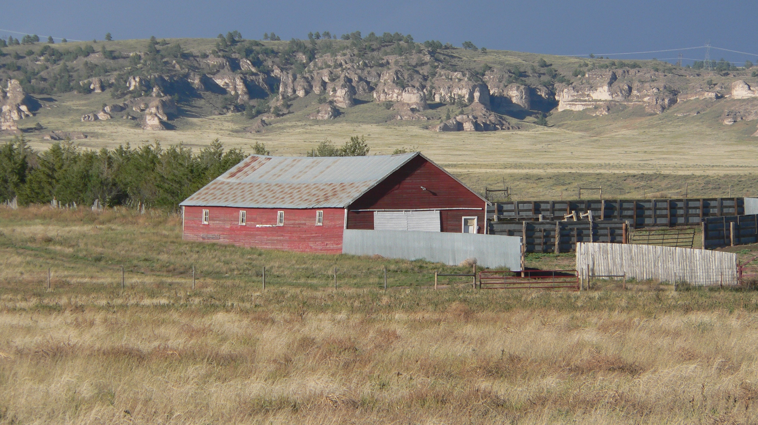 Machine shed and vicinity at C. C. Hampton homestead, located at 2170 Road 40 in rural Banner County, Nebraska; seen from the northwest, from Rd 40.